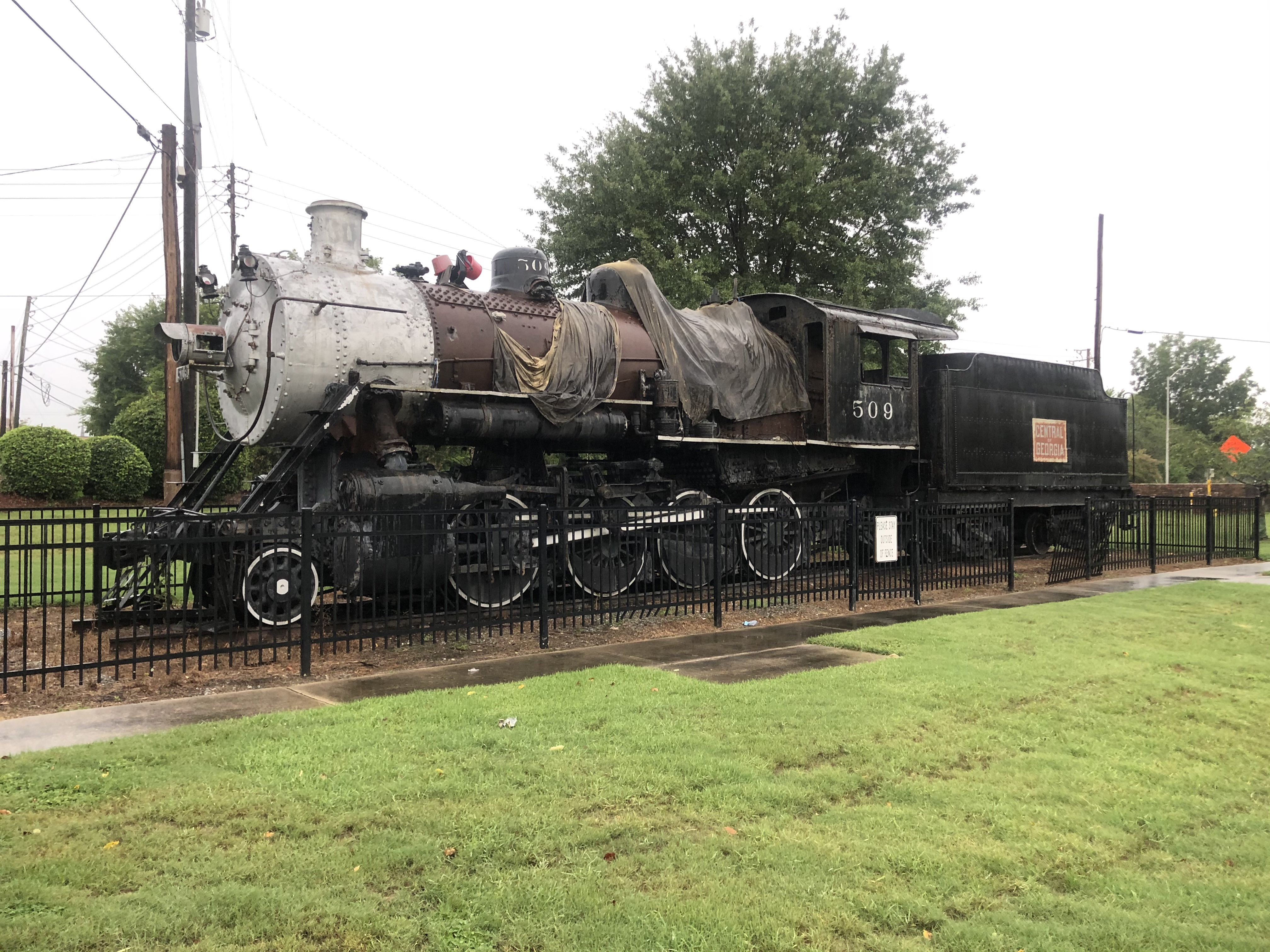 509 sitting in central city park